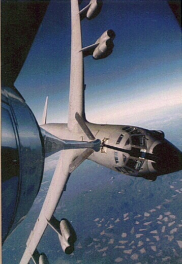 A Boeing B-52 Stratofortress refueling from a Boeing KC-135 Stratotanker while performing a whifferdill turn to demonstrate operational limitations of the aircraft and their systems.